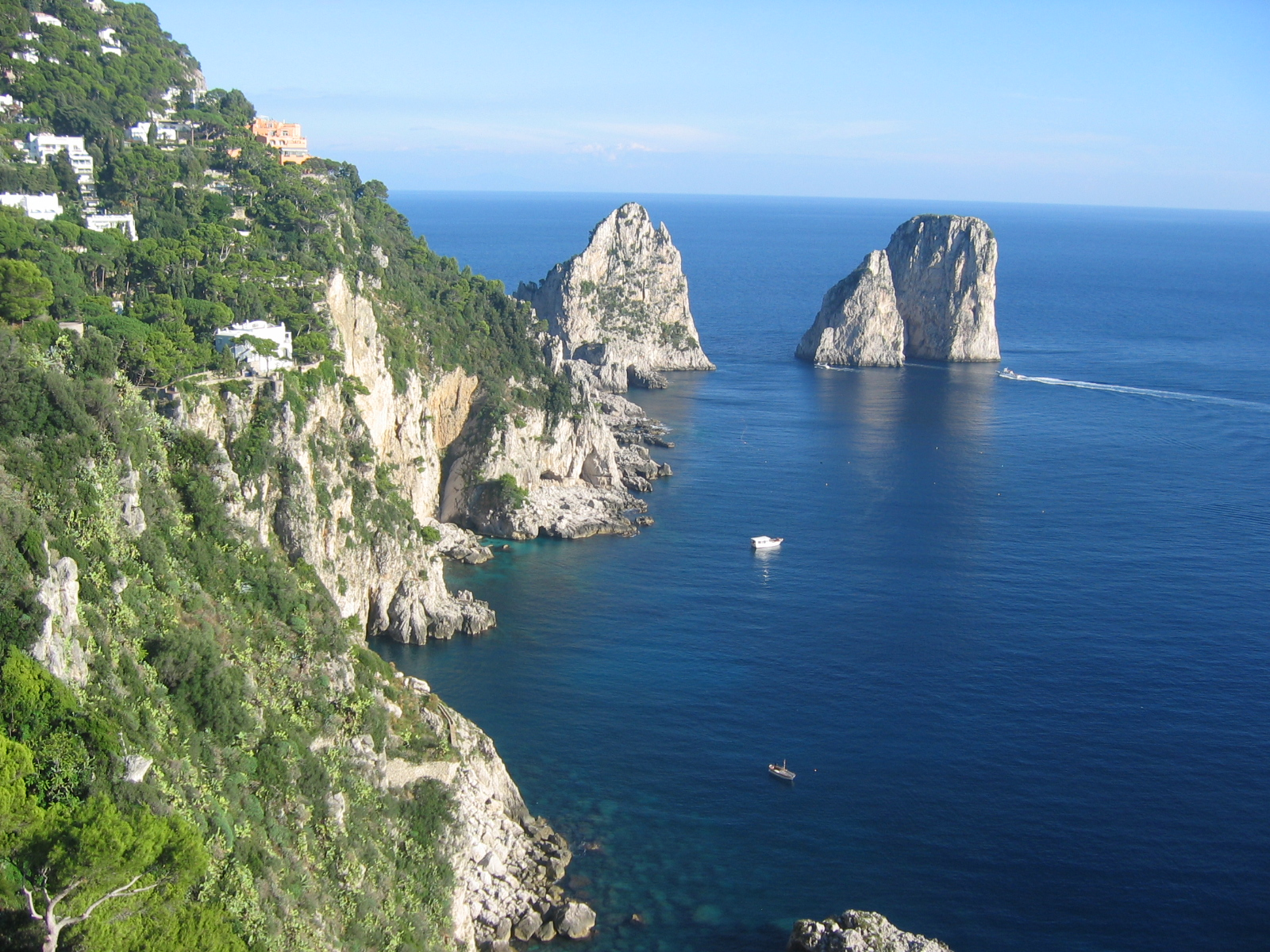 Capri Coastal Walk on Olde Ipswich Tours': Amalfi Coast and Sicily Tour